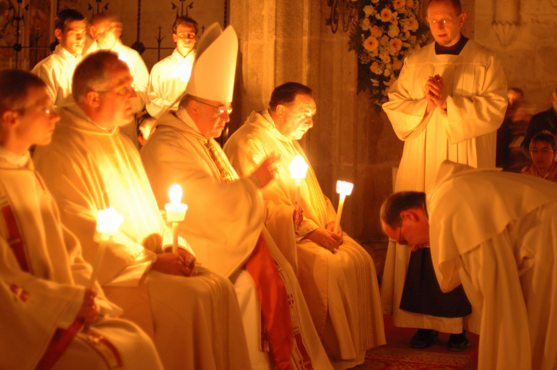 Liturgy of the Word, Easter Vigil. Photo was taken in the Cistercian Abbey Heiligenkreuz, near Vienna, 2008.